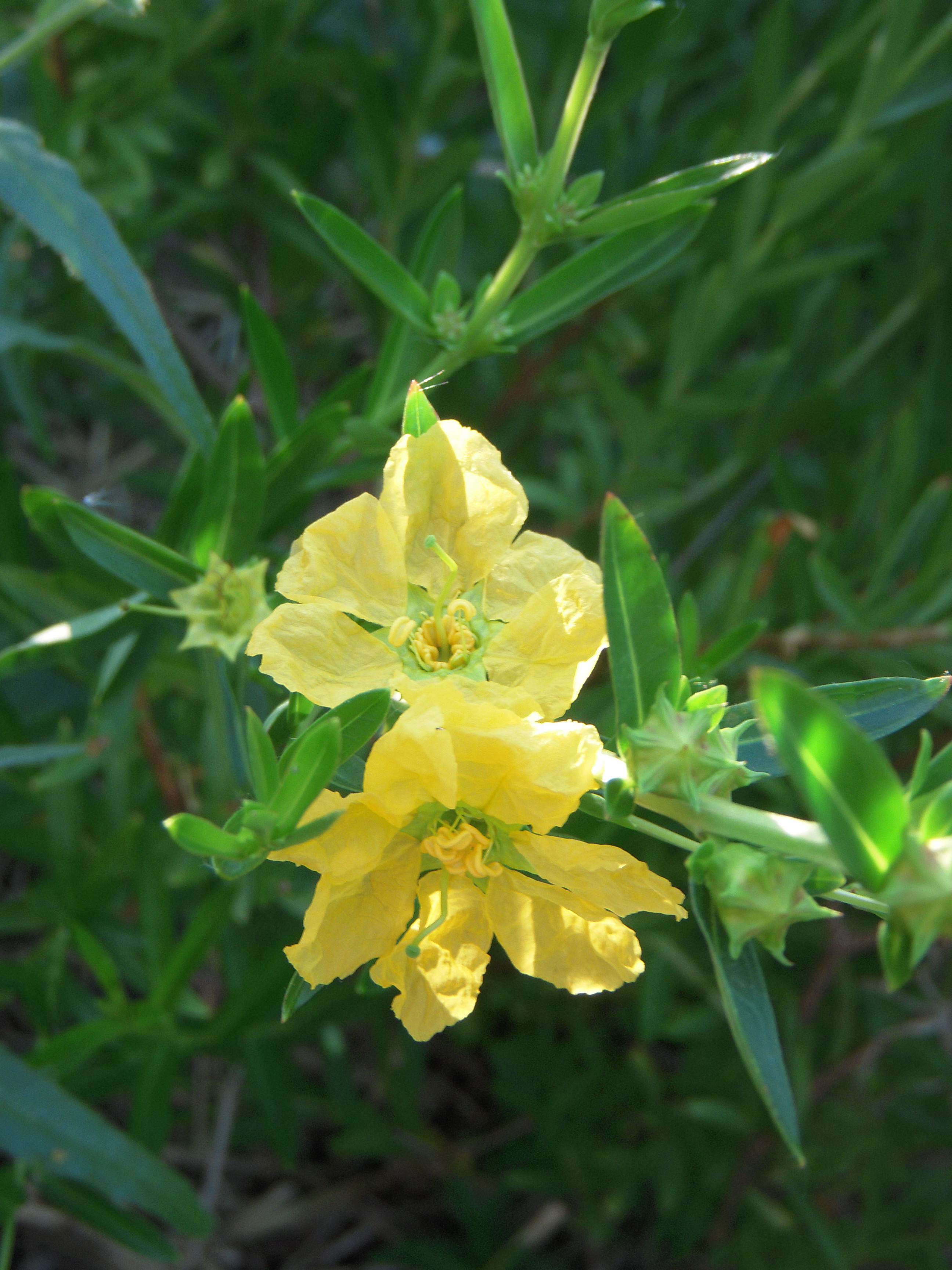 Heimia salicifolia, a.k.a. "Sun Opener" or "Sinicuichi, in blossom at private residence in Portland, Oregon, USA, July 2012.